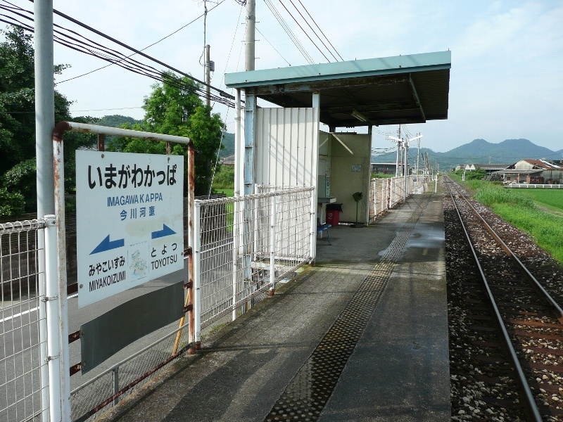 Imagawa kappa station